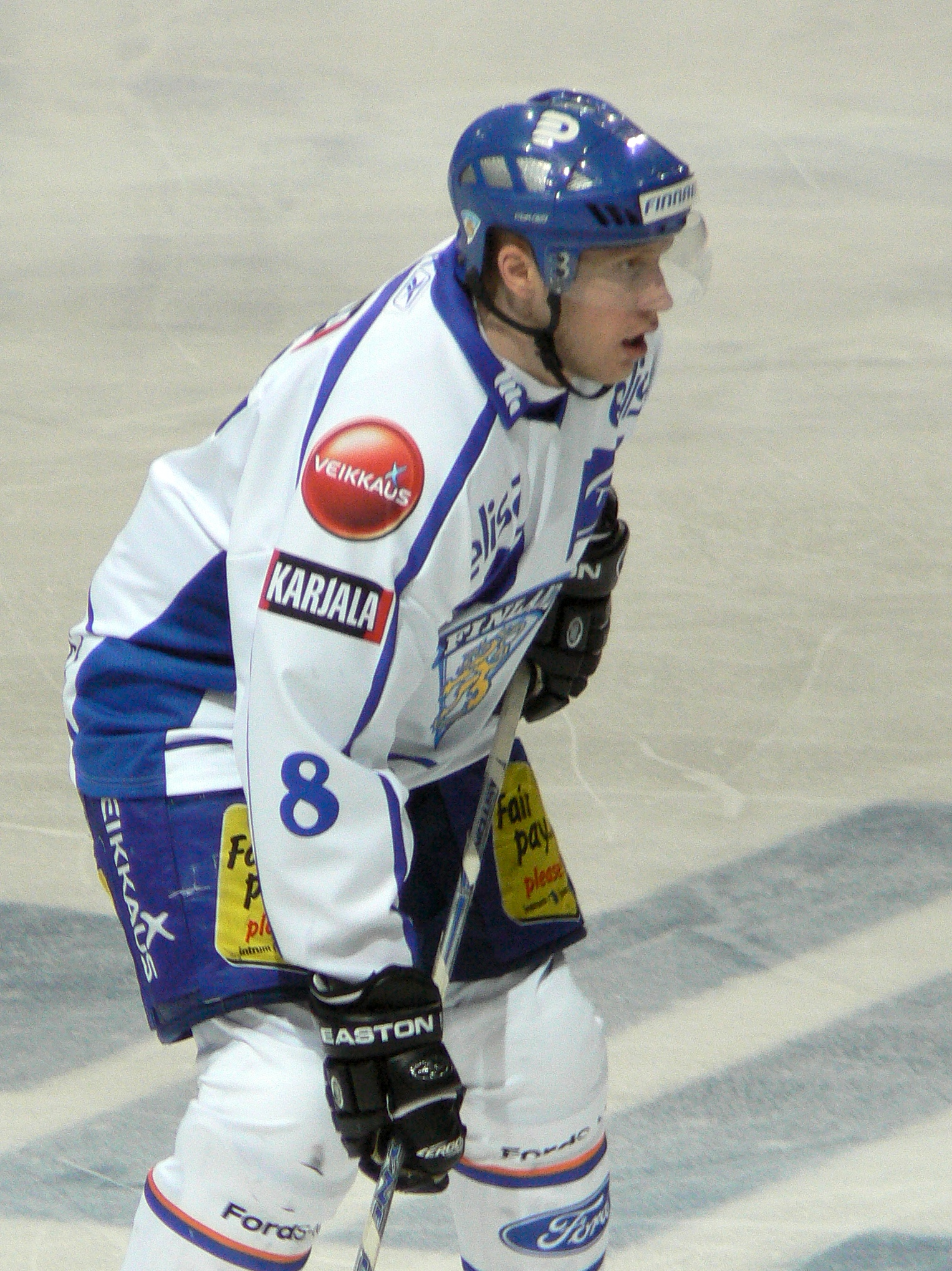 Finnish ice hockey winger Hannes Hyvönen playing for his national team in an LG Hockey Games / Eurohockey Tour match against the Czech Republic in Tampere, Finland, February 2008.